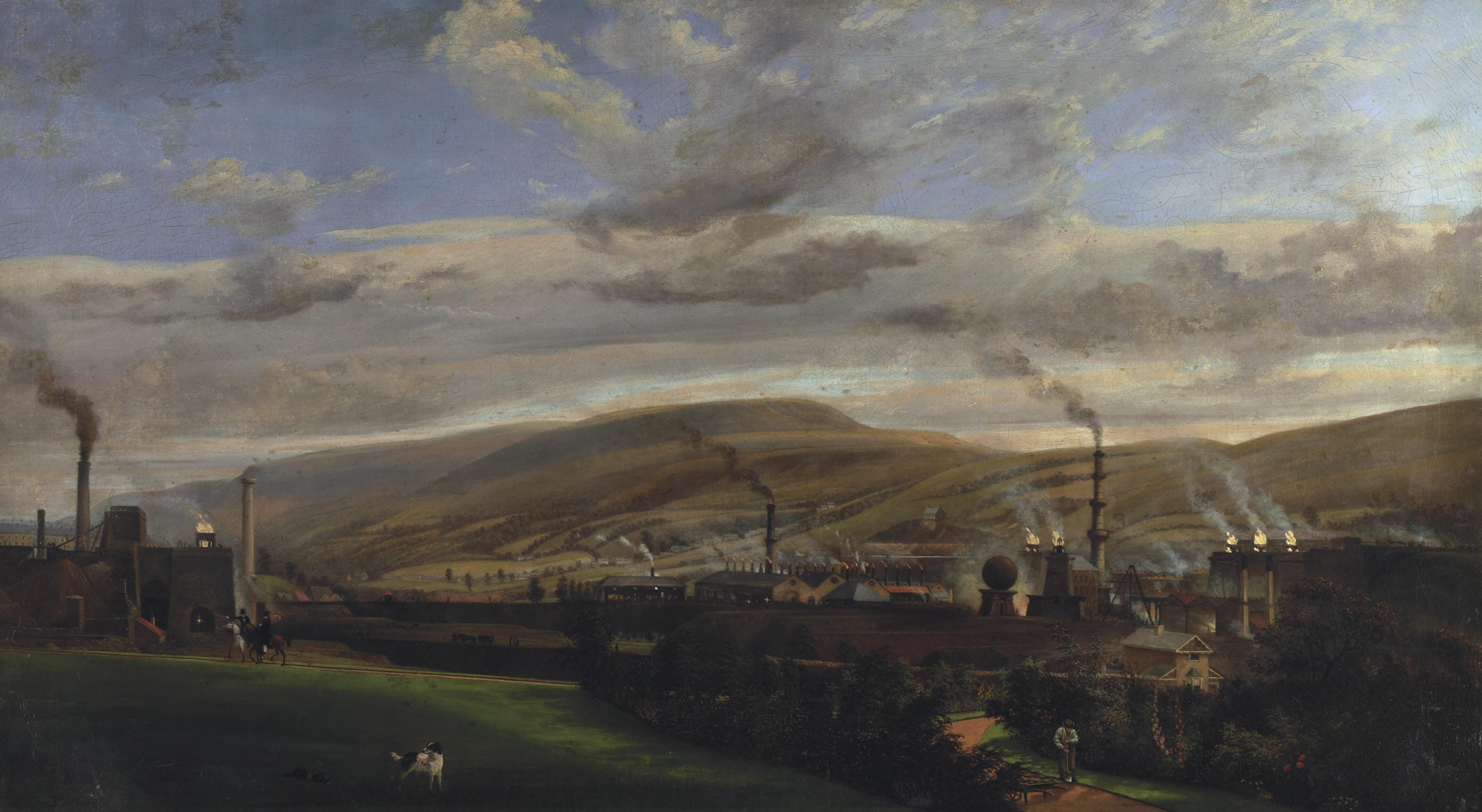 A painting from the Framed Works of Art collection at the National Library of wales.